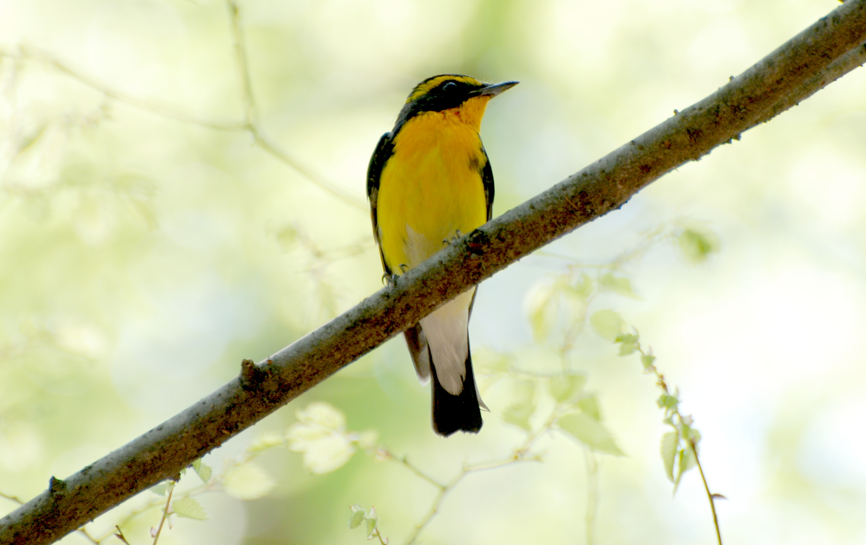 Narcissus Flycatcher Ficedula narcissina, Osaka, Japan